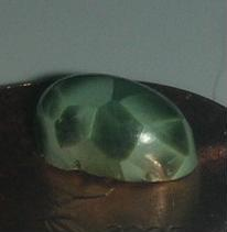 wraithwing, took the photo my self same one only small size